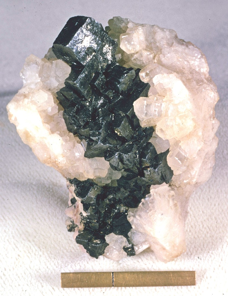 Acanthite on Calcite - Locality: Freiberg District, Erzgebirge, Saxony, Germany - Scale at bottom of image is one inch with a rule at one cm.